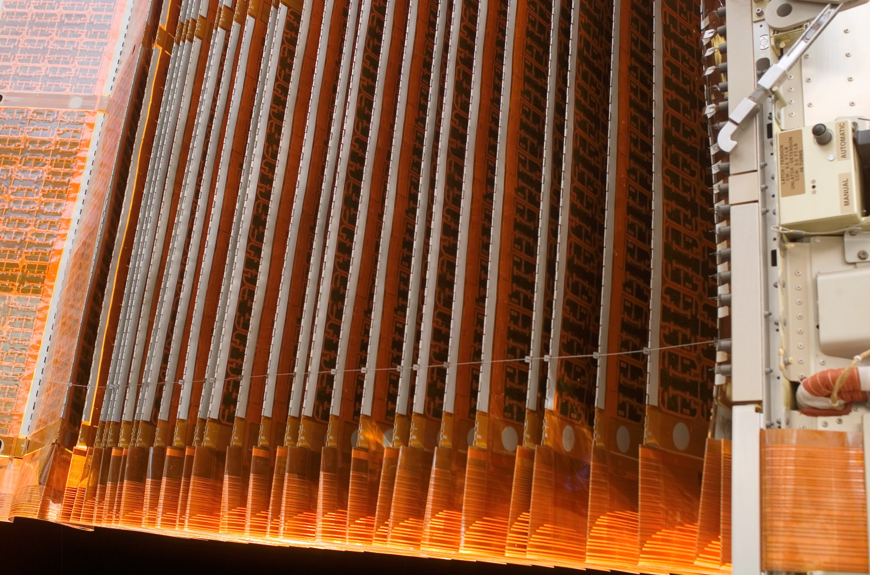 STS-116 Shuttle Mission Imagery A close-up view of the port overhead solar array wing on the International Space Station's P6 truss is featured in this image photographed by a STS-116 crewmember during the mission's fourth session of extravehicular activity (EVA). Astronaut Robert L. Curbeam Jr. (out of frame) and European Space Agency (ESA) astronaut Christer Fuglesang (out of frame), both mission specialists, using specially prepared, tape-insulated tools, guided the array wing neatly inside its blanket box during the 6-hour, 38-minute spacewalk.